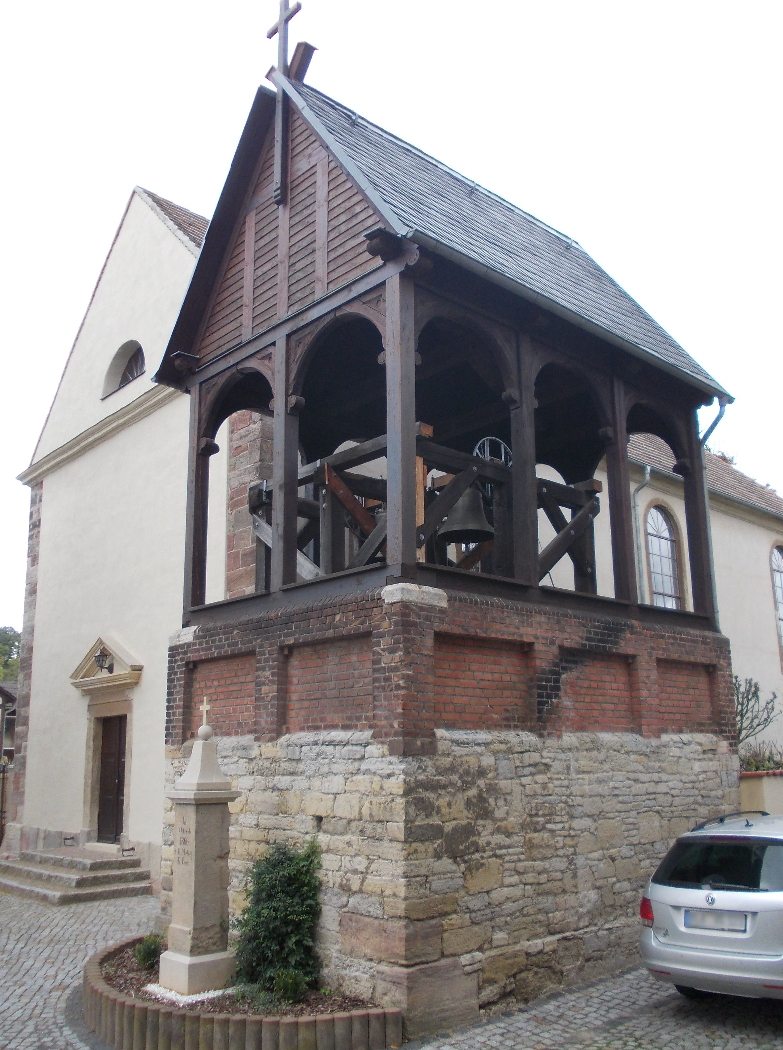 Church and bell tower in Mertendorf (district: Burgenlandkreis, Saxony-Anhalt)